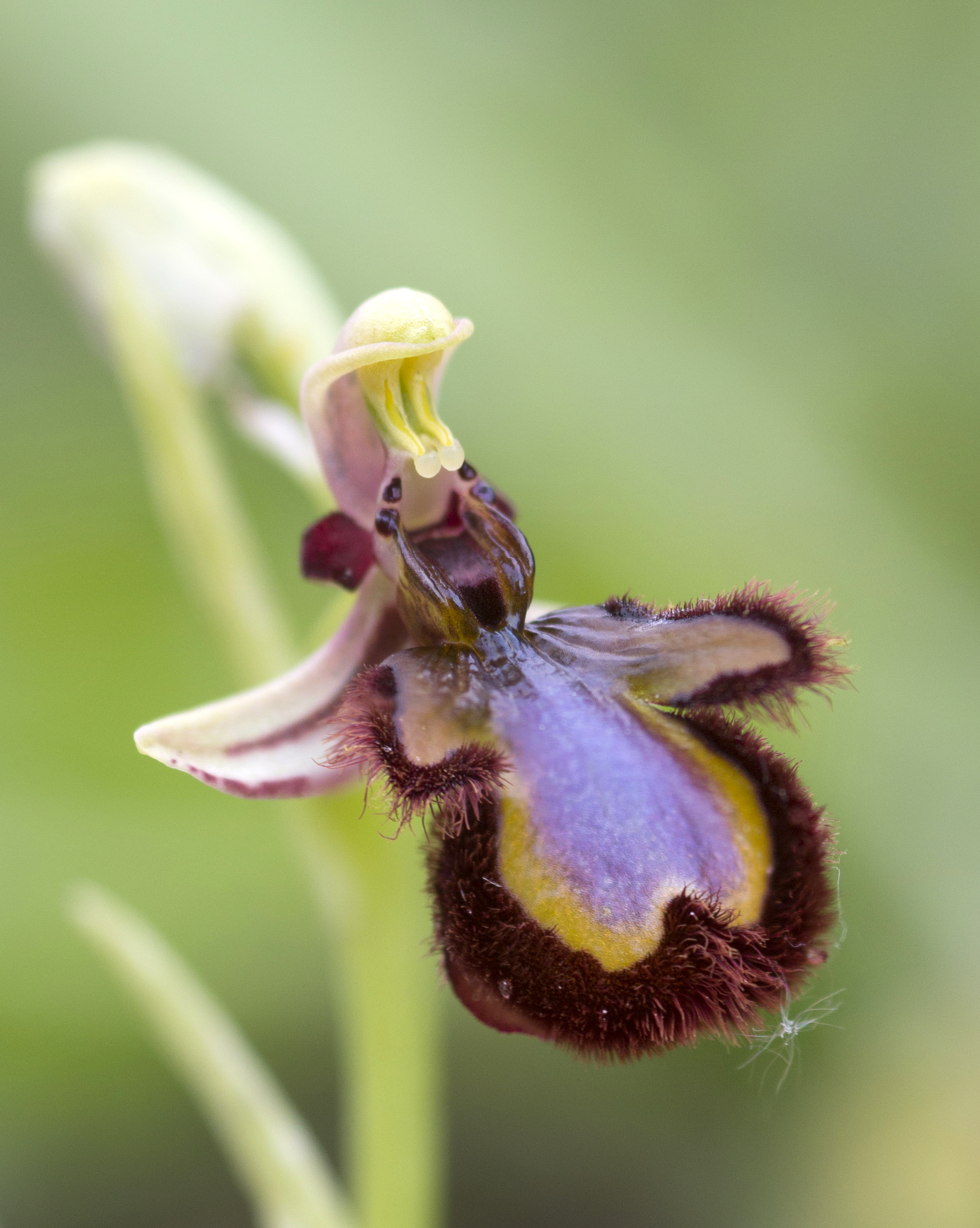 mirror orchid